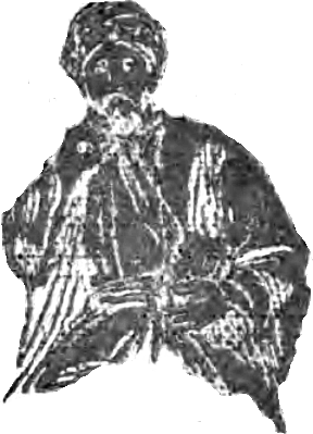 Illustration of Al Ghazzali on cover of The Alchemy of Happiness.